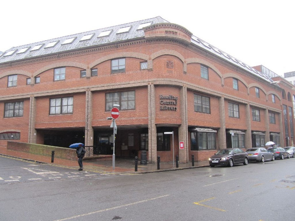 Reading Central Library on the corner of Abbey Square and Kings Road. The Library used to be at the Town Hall when I used to go to school in Reading.